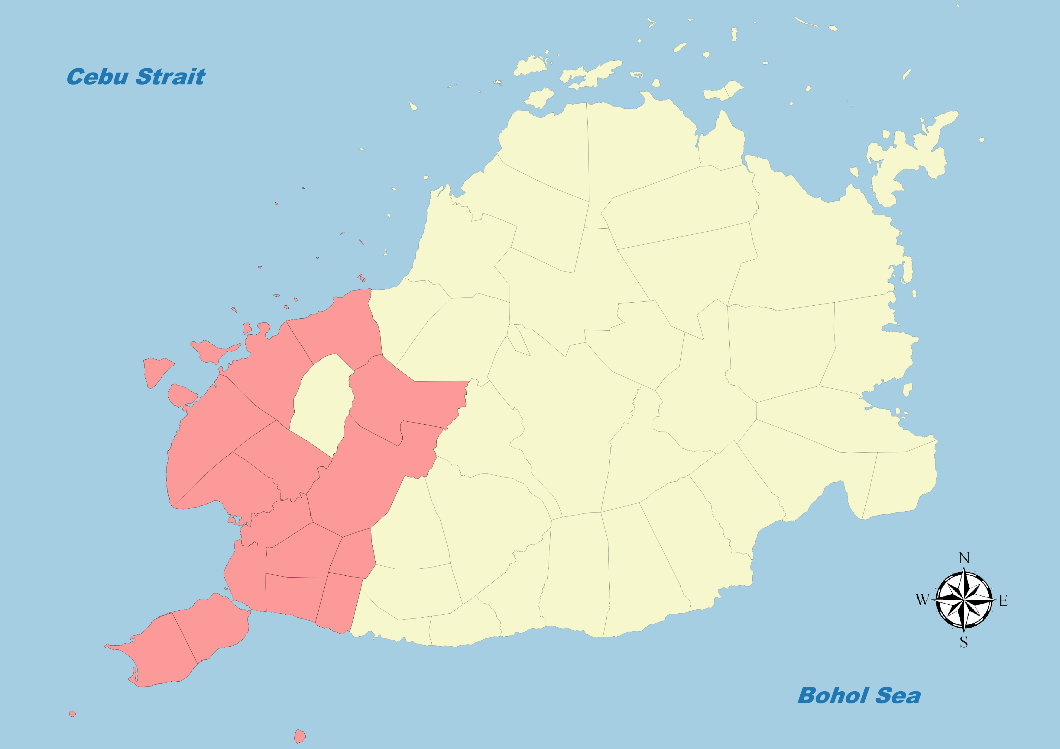 Map of Bohol's First District (1987-present)